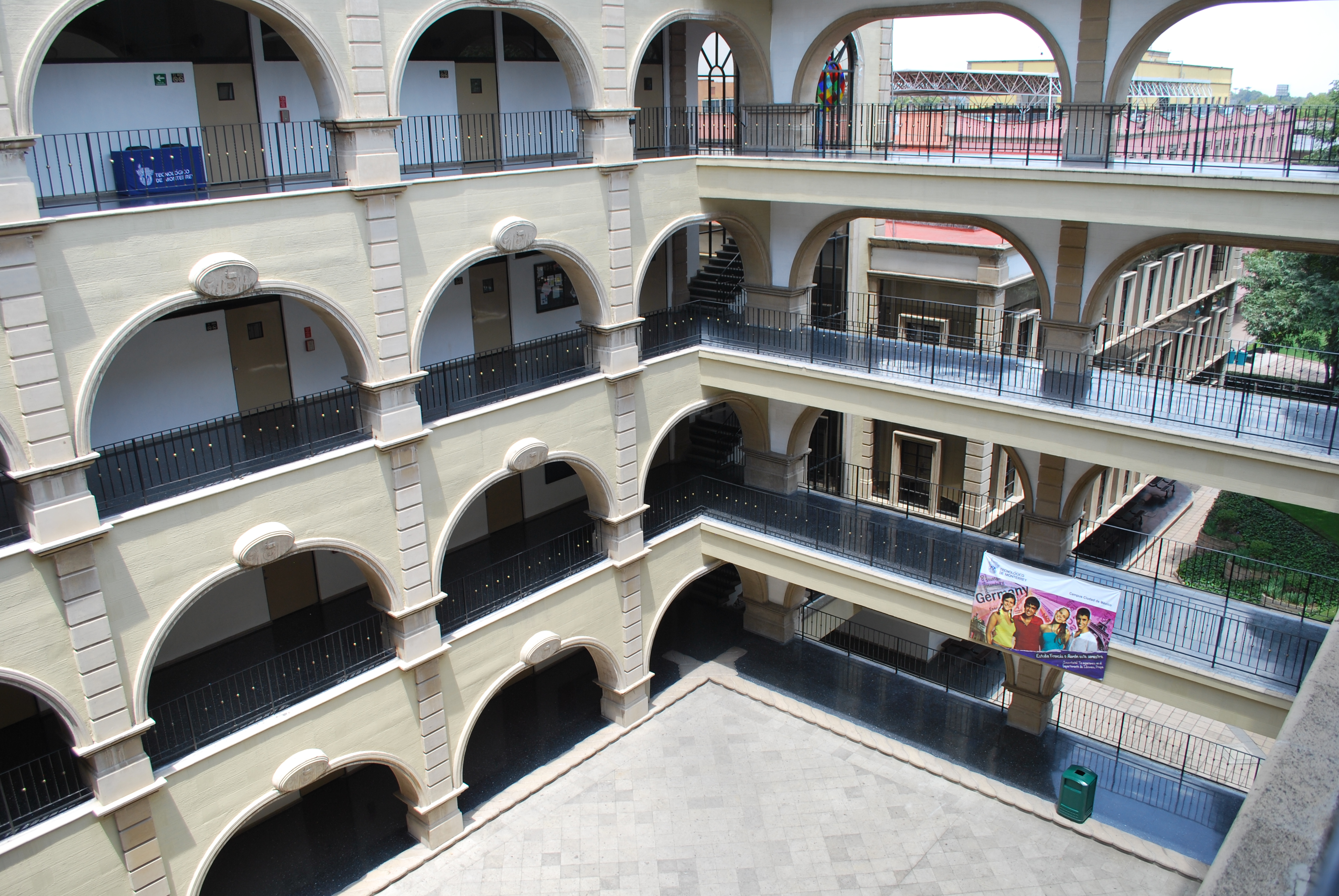 View of the courtyard of Aulas II at ITESM-CCM in Mexico City